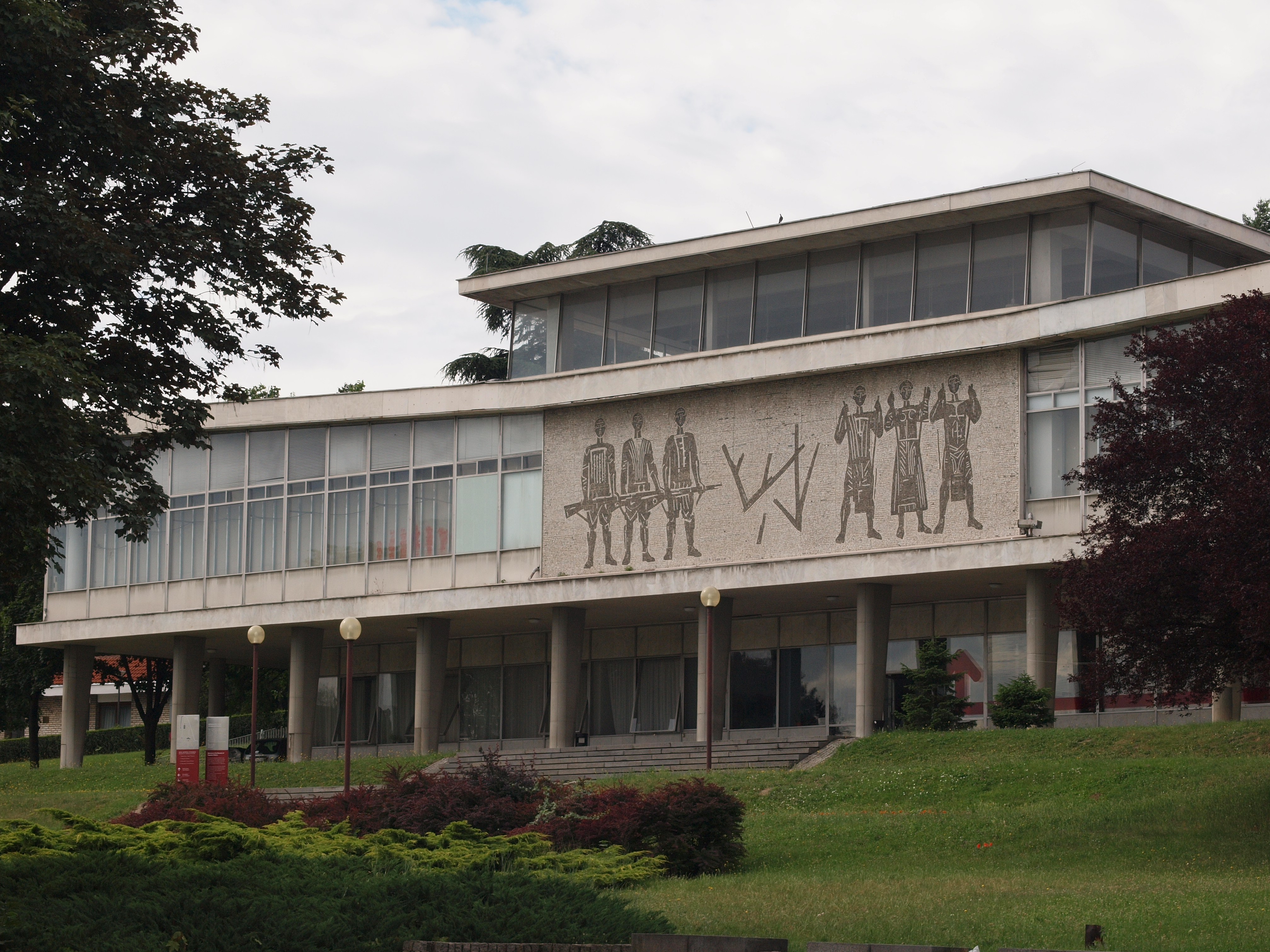 Museum of the History of Yugoslavia, Museum 25. May, Belgrade, Serbia